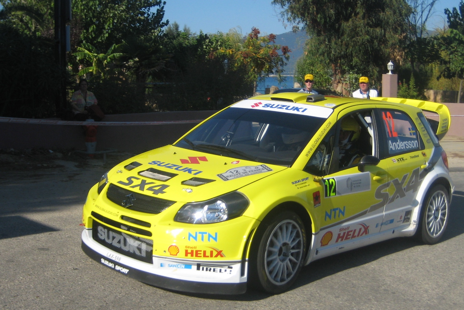 2008 Rallye de France, Day 1, Per-Gunnar Andersson - Suzuki SX4 WRC